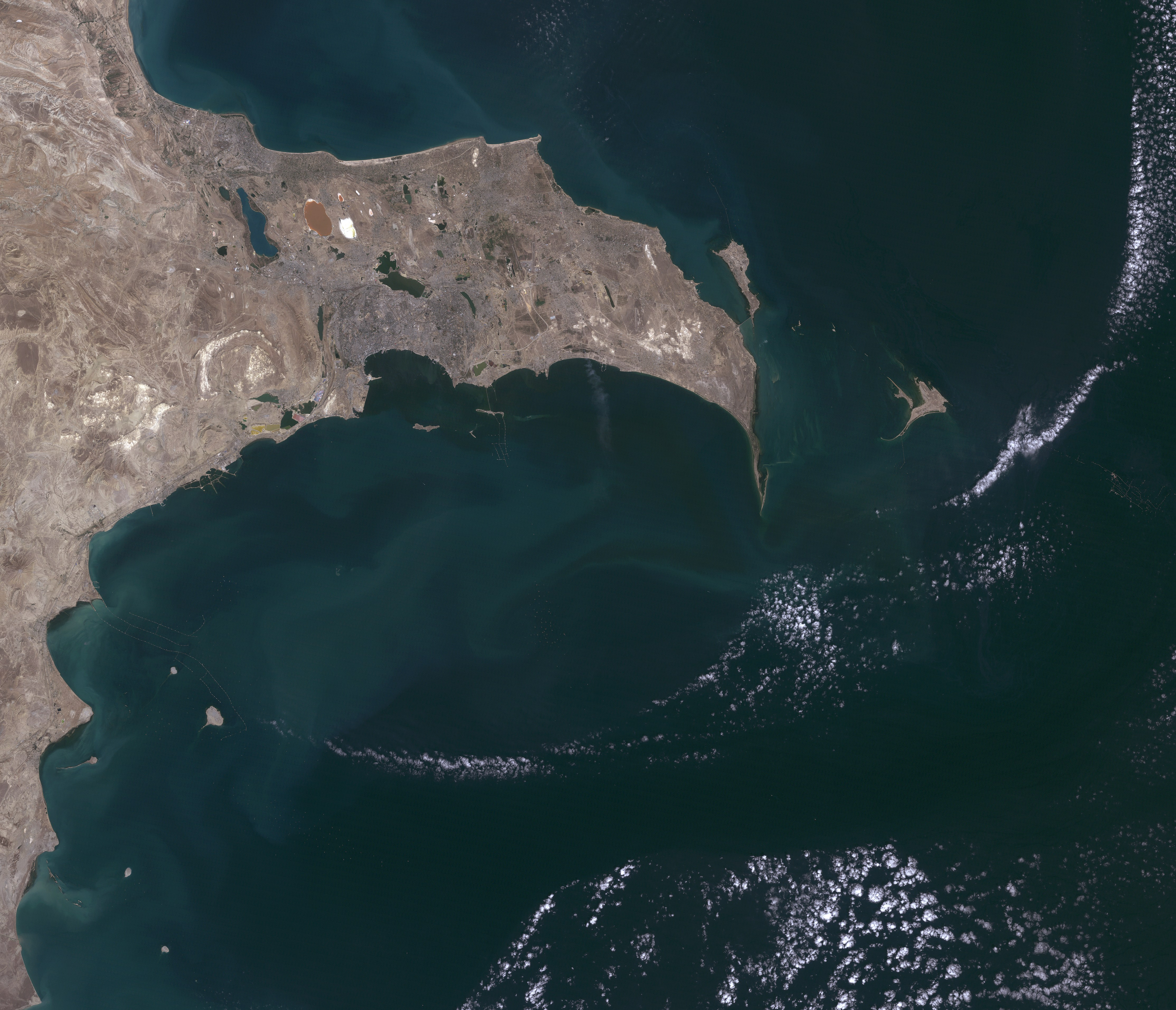 Greater Baku, Azerbaijan, satellite image, LandSat-5, 2010-09-06, near natural colors, resolution 30 m